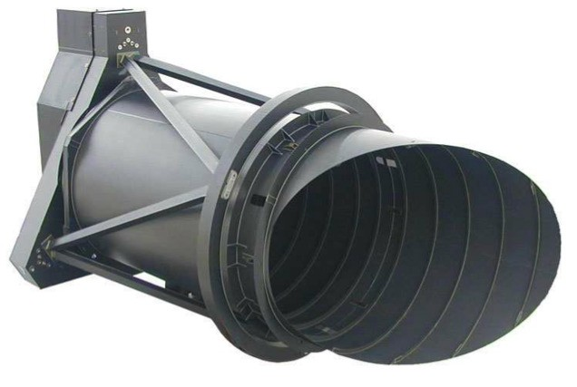 HiRISE camera of the Mars Reconnaissance Orbiter (NASA).